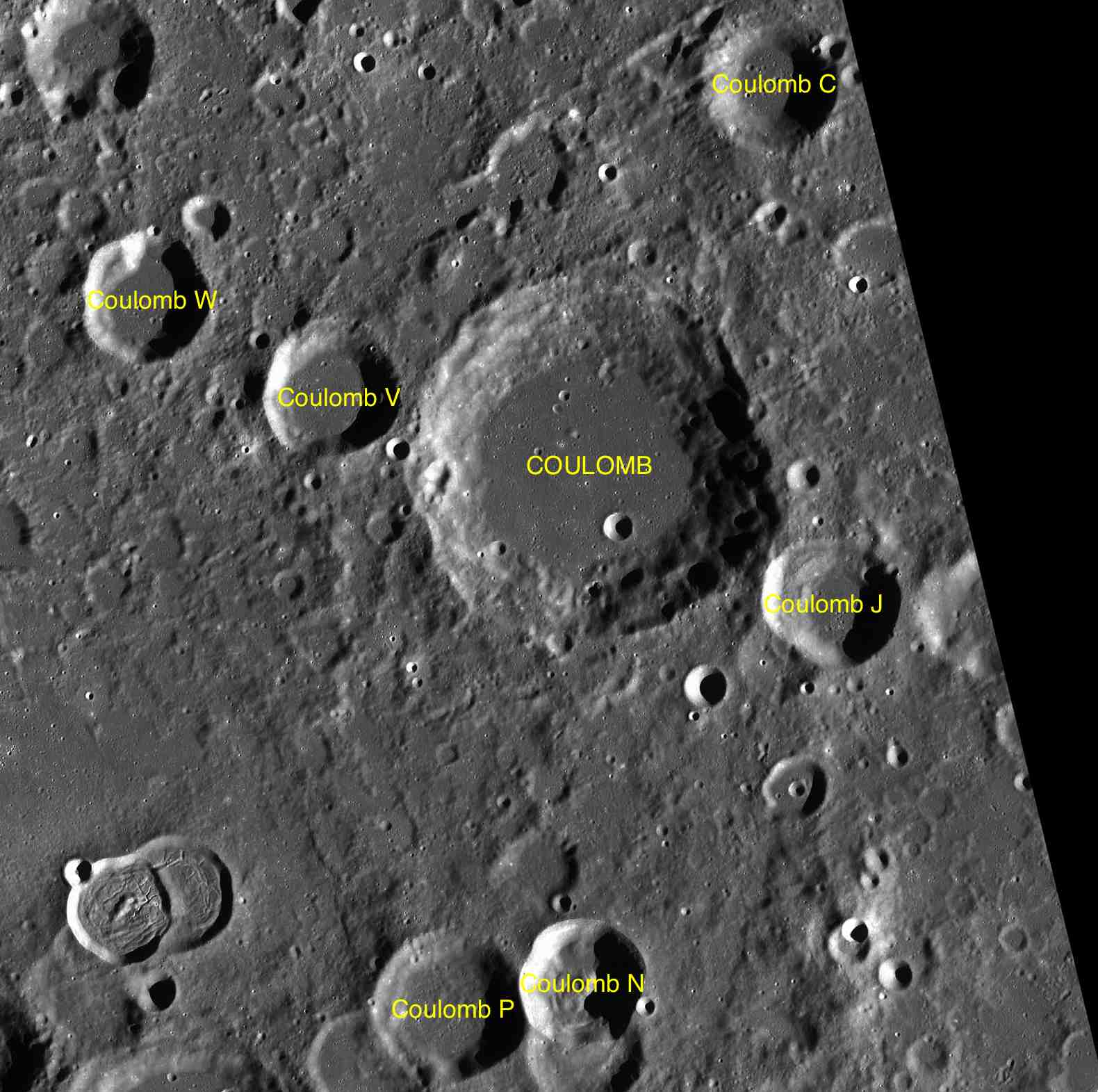 Part of the chart LAC-20 used for the presentation